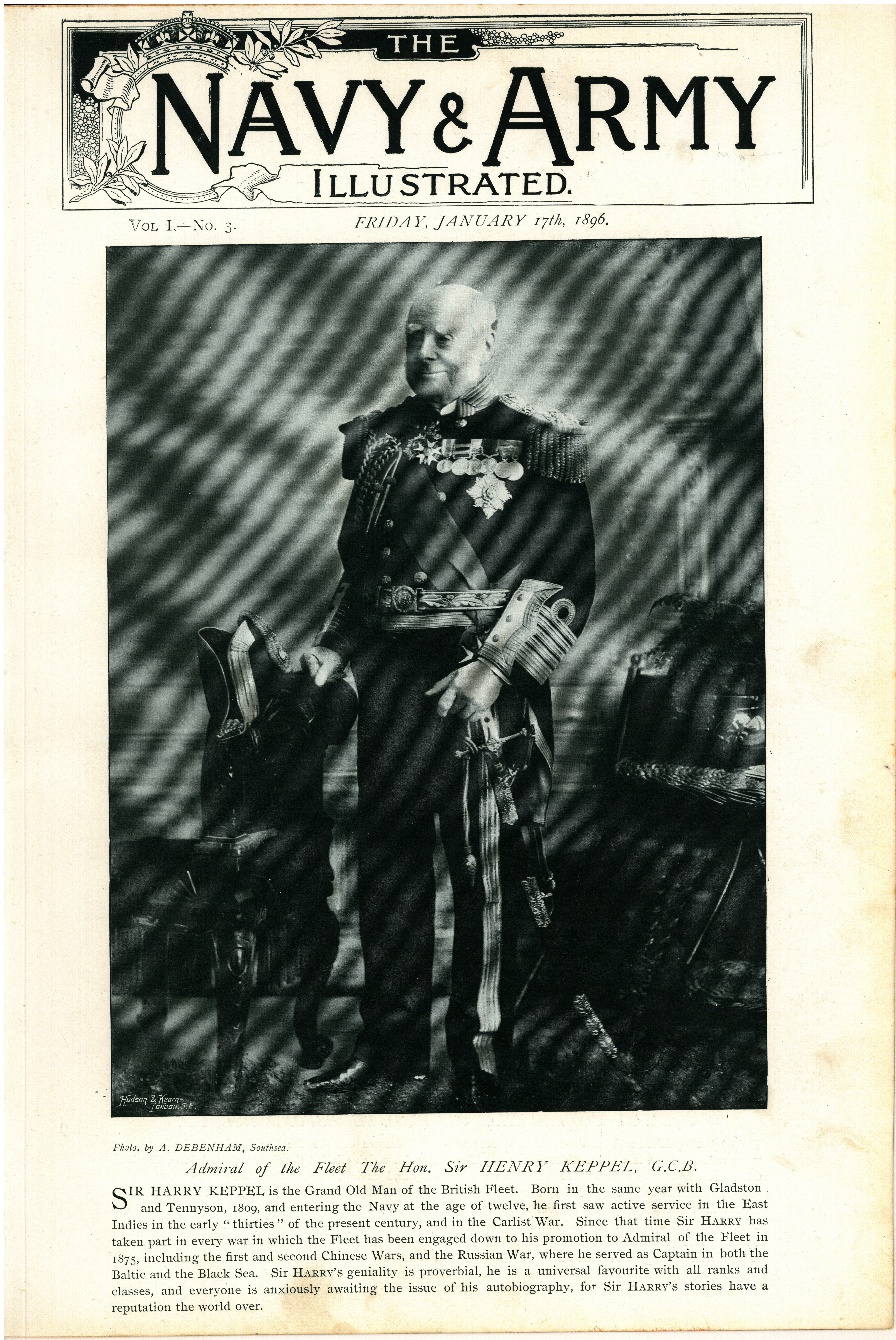 Scanned image of "The Navy & Army Illustrated" Vol. I - No. 3. Friday, January 17th, 1896. Photo by A. Debenham, original copyright by Hudon & Kearns, London. The title reads: Admiral of the Fleet of Hon. Sir HENRY KEPPEL, G.C.B. The Description at the bottom reads: Sir Harry Keppel is the Grand Old Man of the British Fleet. Born in the same year with Gladston and Tennyson, 1809, and entering the Navy at the age of twelve, he first saw active service in the East Indies in the early "thirties" of the present century, and in the Carlist War. Since that time Sir HARRY has taken part in every war in which the Fleet has been engaged down to his promotion to Admiral of the Fleet in 1875, including the first and second Chinese Wars, and the Russian War, where he served as Captain in both the Baltic and Black Sea. Sir HARRY's geniality is proverbial, he is a universal favourite with all ranks and classes, and everyone is anxiously awaiting the issue of his autobiography, for Sir HARRY's stories have a reputation the world over.